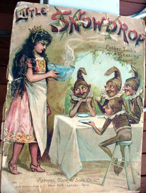 Book cover from Little Snowdrop, 1731